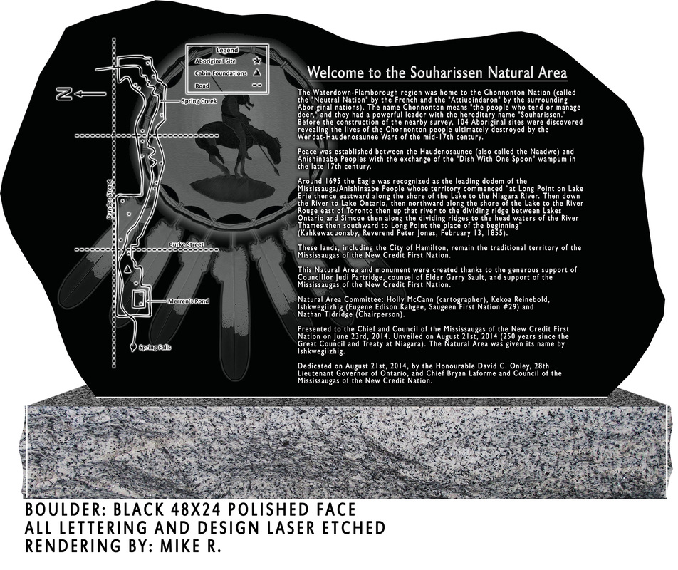 Souharissen Monument Stone in Waterdown, Ontario. The map was designed by Holly McCann